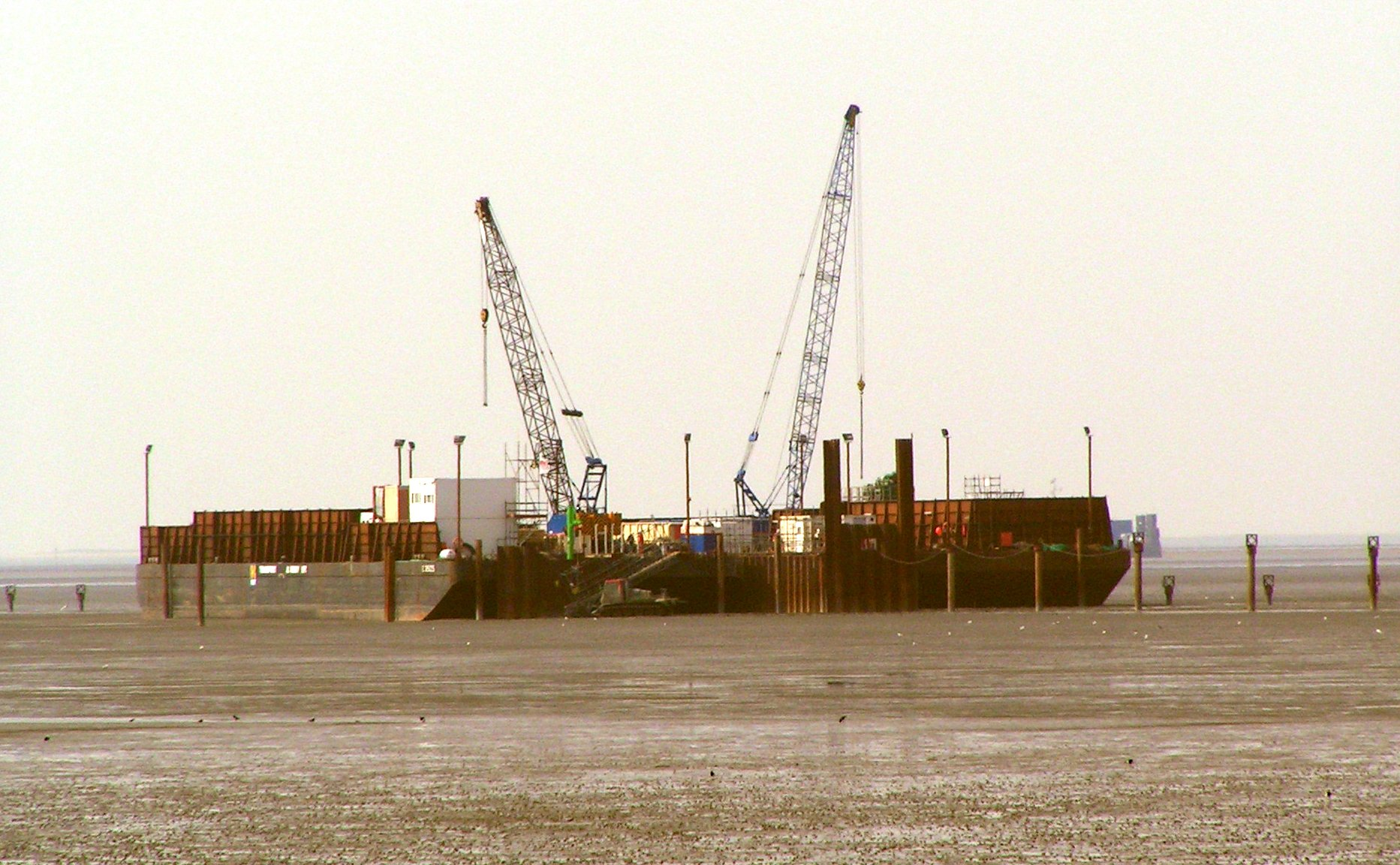 The first of about 5 sites for drilling the pipeline from the Mittelplate oilfield to the coast into the ground, going through the area of the Wadden Sea national park.